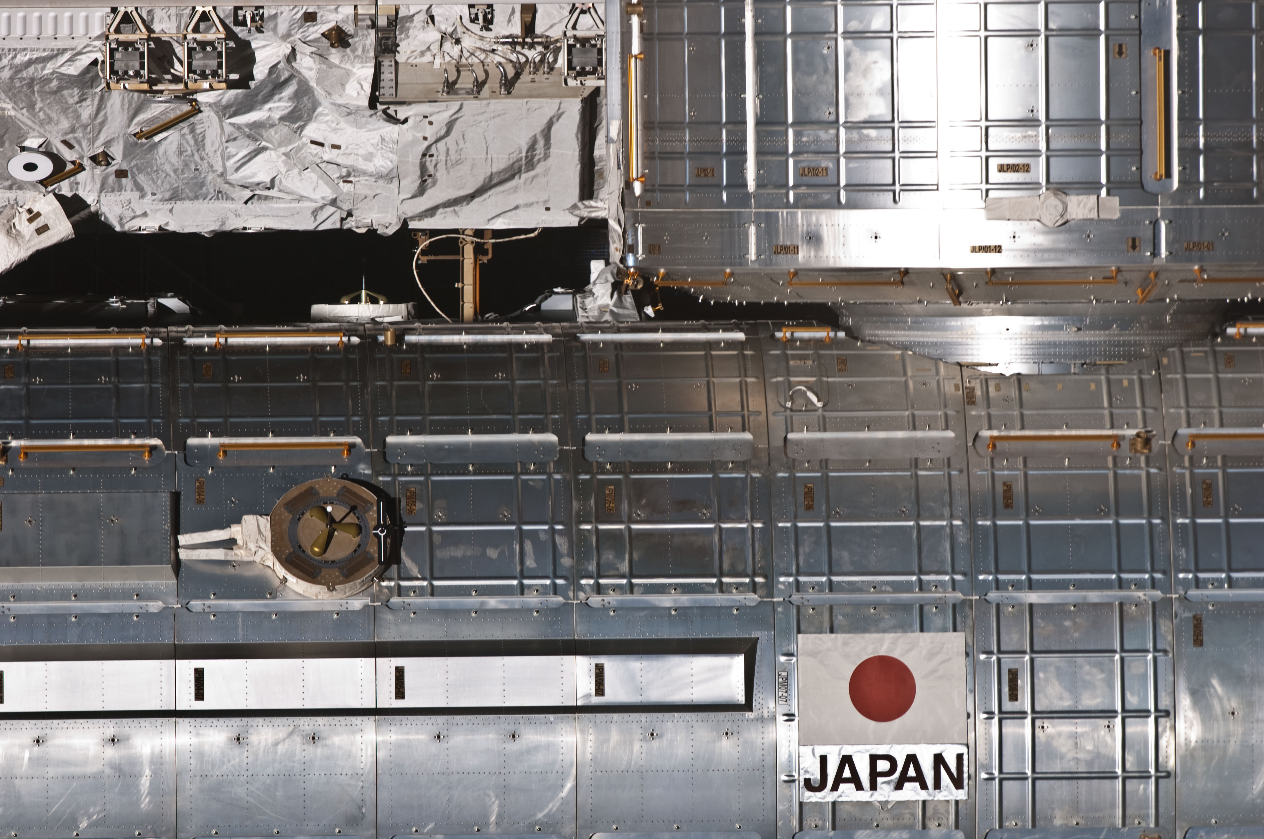 Exterior view of the ISS Kibo PM module and stainless steel panels, from the space shuttl Atlantis on STS-132